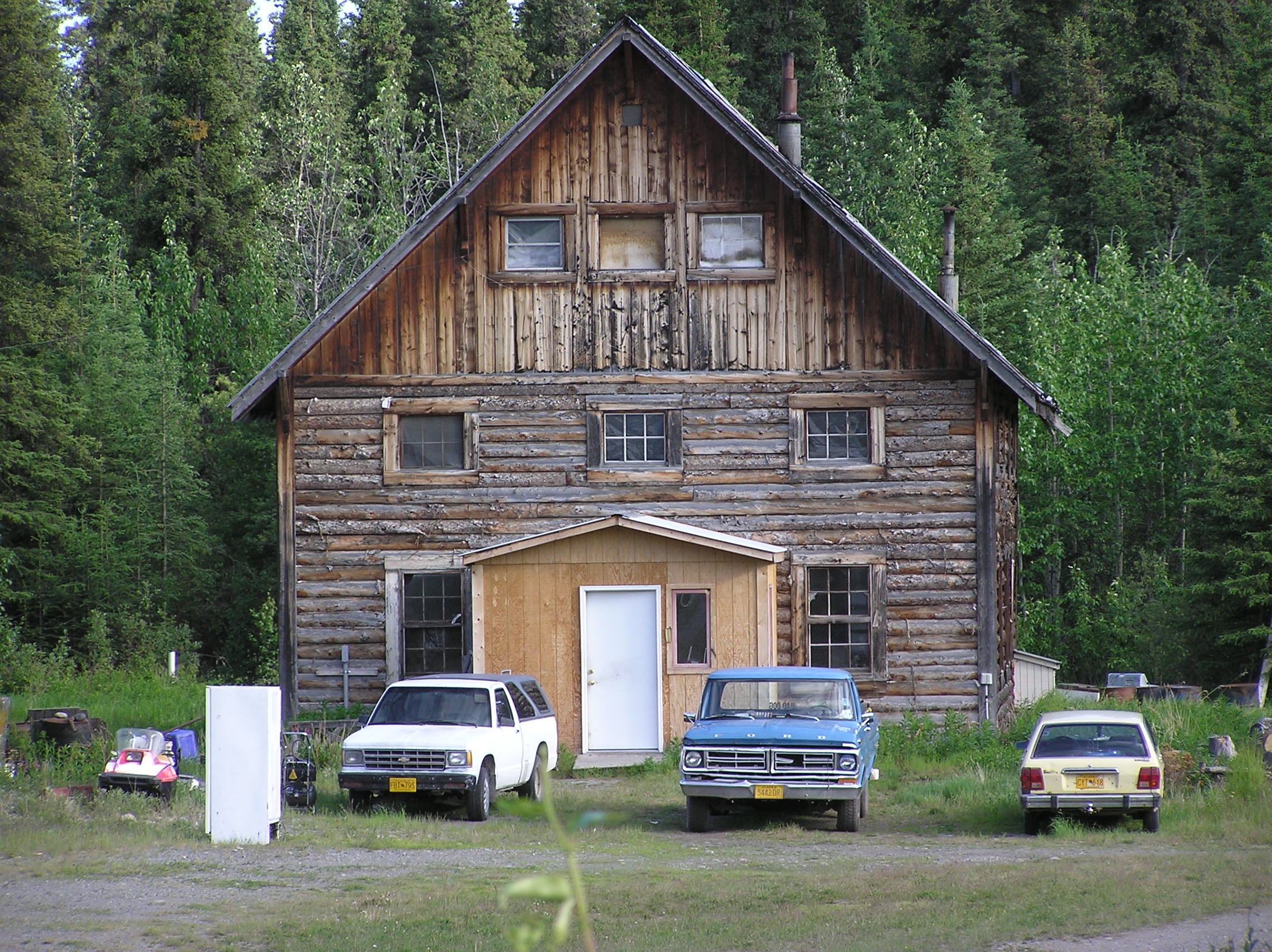 Slana Roadhouse, Mile 1 on Nebesna Rd. Slana